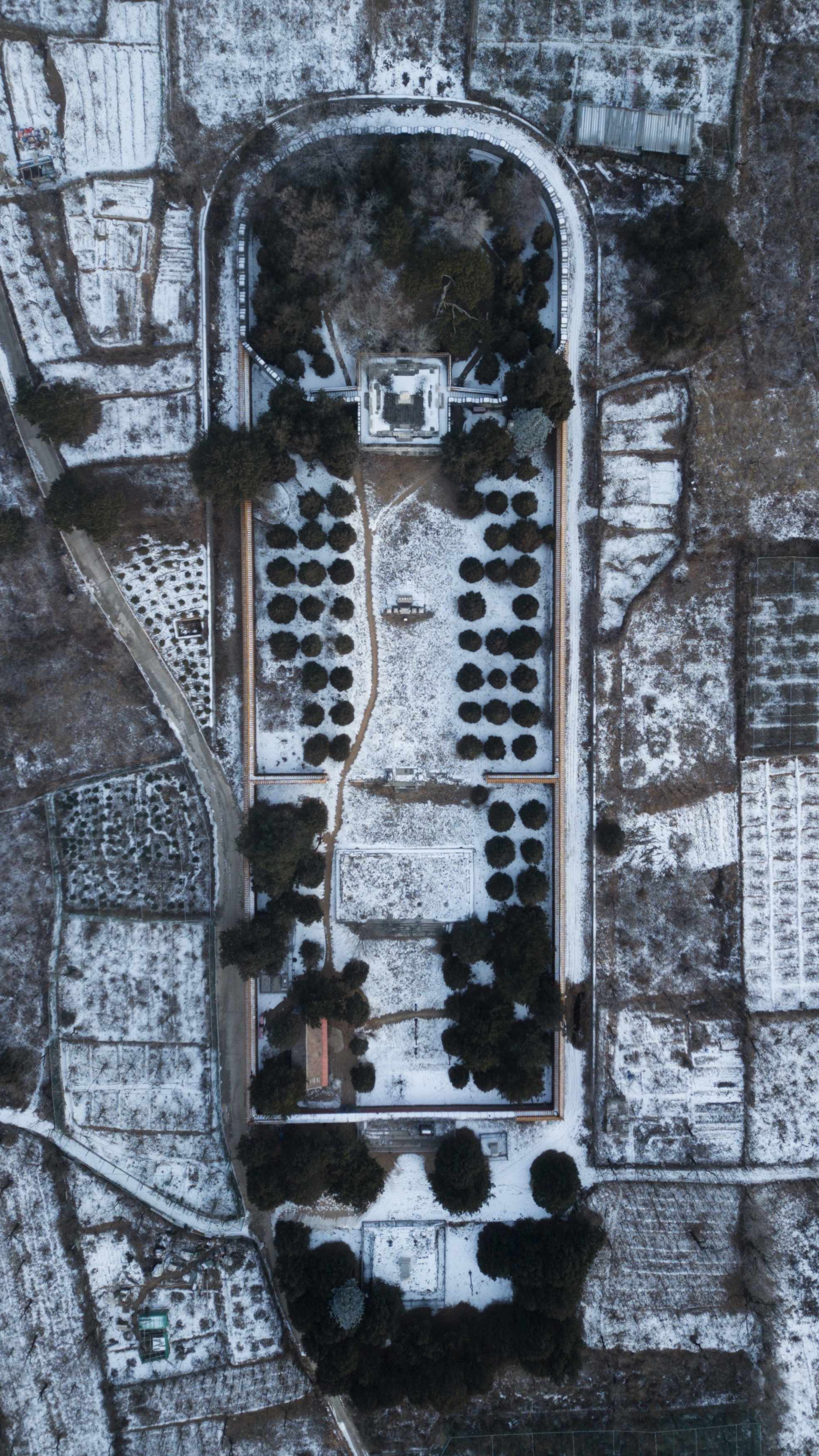 The Siling mausoleum where the Chongzhen emperor and his consorts was buried.